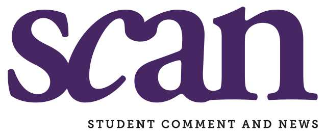 The logo of SCAN, Lancaster University's student newspaper, before 2013.